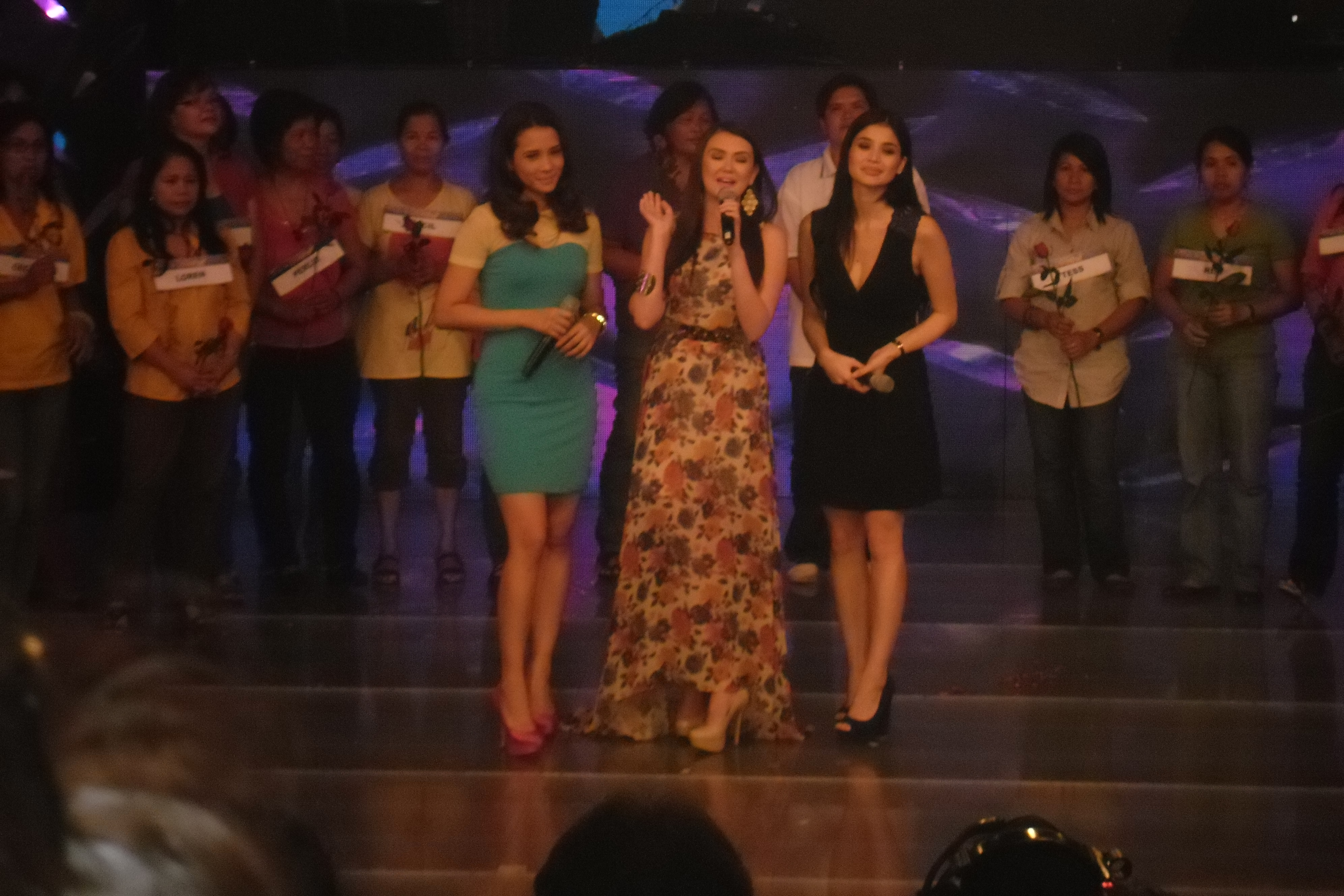 Karylle (left) and Anne Curtis (right), hosting It's Showtime, with Angelica Panganiban (center).